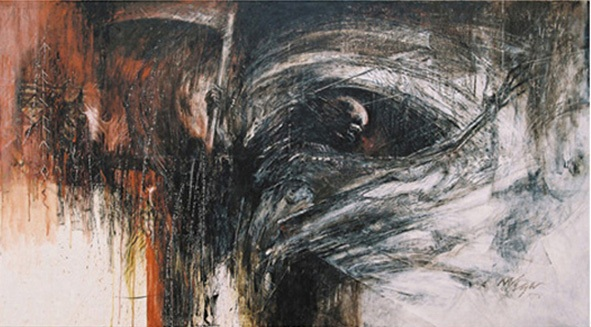 1 Painting Tanatos (Thanatos) by Mauricio García Vega